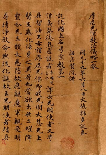 The Compendium of the Doctrines and Styles of the Teaching of Mani, the Buddha of Light, S. 3969 preserved at the British Library.